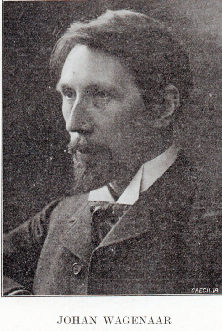 Dutch composer Johan Wagenaar, 1911